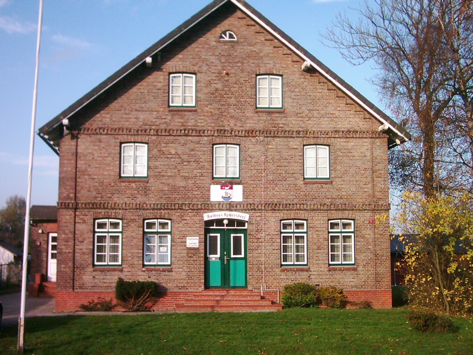 Town hall in Geversdorf, Lower Saxony, Germany.